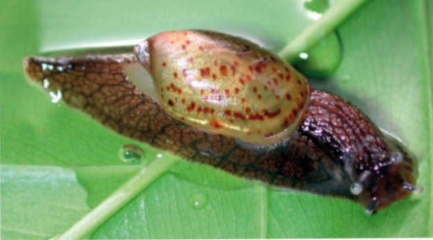 Photo of Amphibulima pardalina.